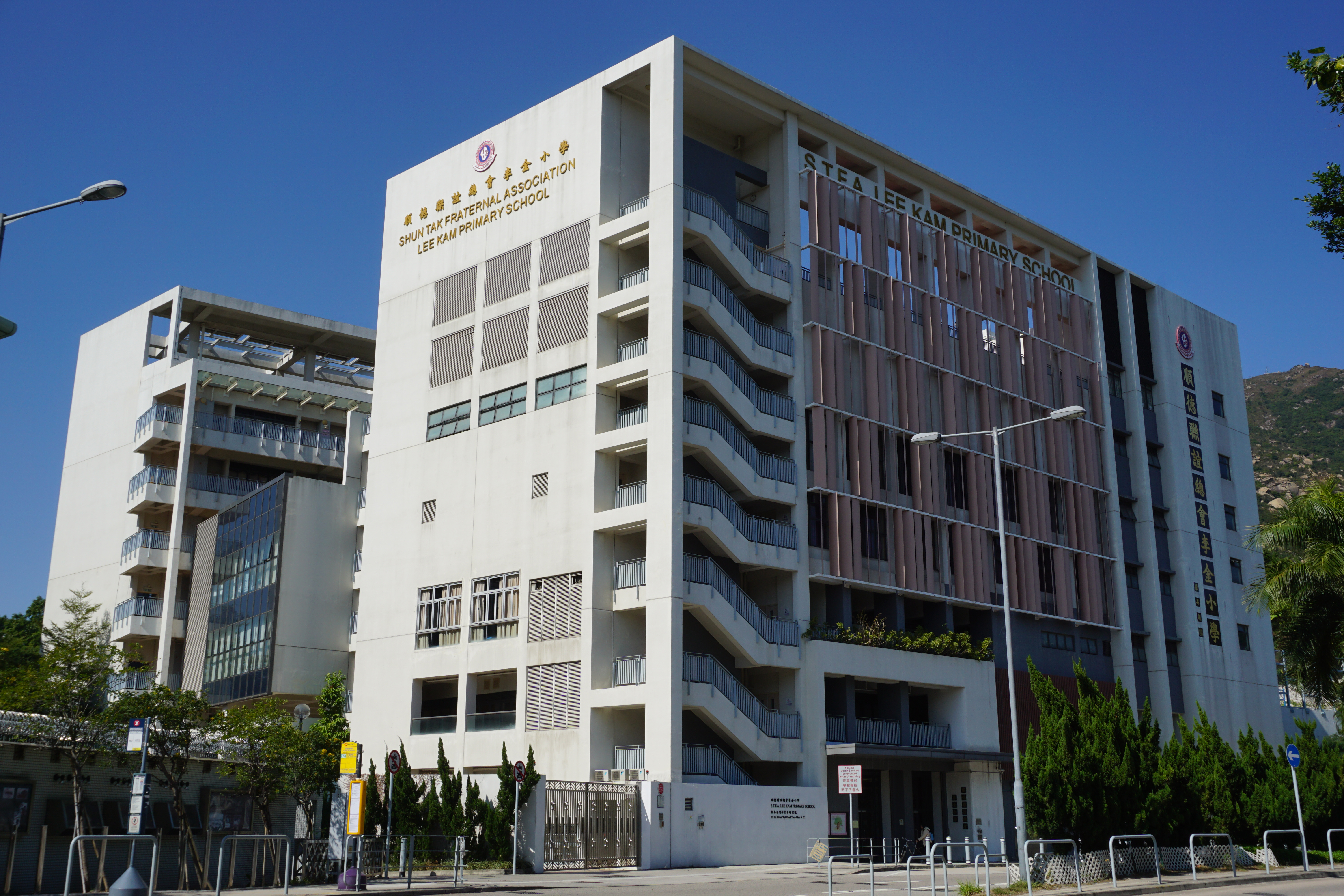 S.T.F.A. Lee Kam Primary School in So Kwun Wat, Hong Kong.